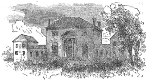 Engraving of Tudor Place from page 621 of George Alfred Townsend's book, "Washington, outside and inside: A picture and a narrative of the origin, growth, excellencies, abuses, beauties, and personages of our governing city." published by J. Betts & Co. in 1874 "Tudor Place, of which we give an engraving, is the finest villa in Georgetown, and was built by Thomas Peter. Here Robert E. Lee paid his last visit to the District of Columbia, about 1869. It is now occupied by Thos. Beverley Kennon, of the Peter family."